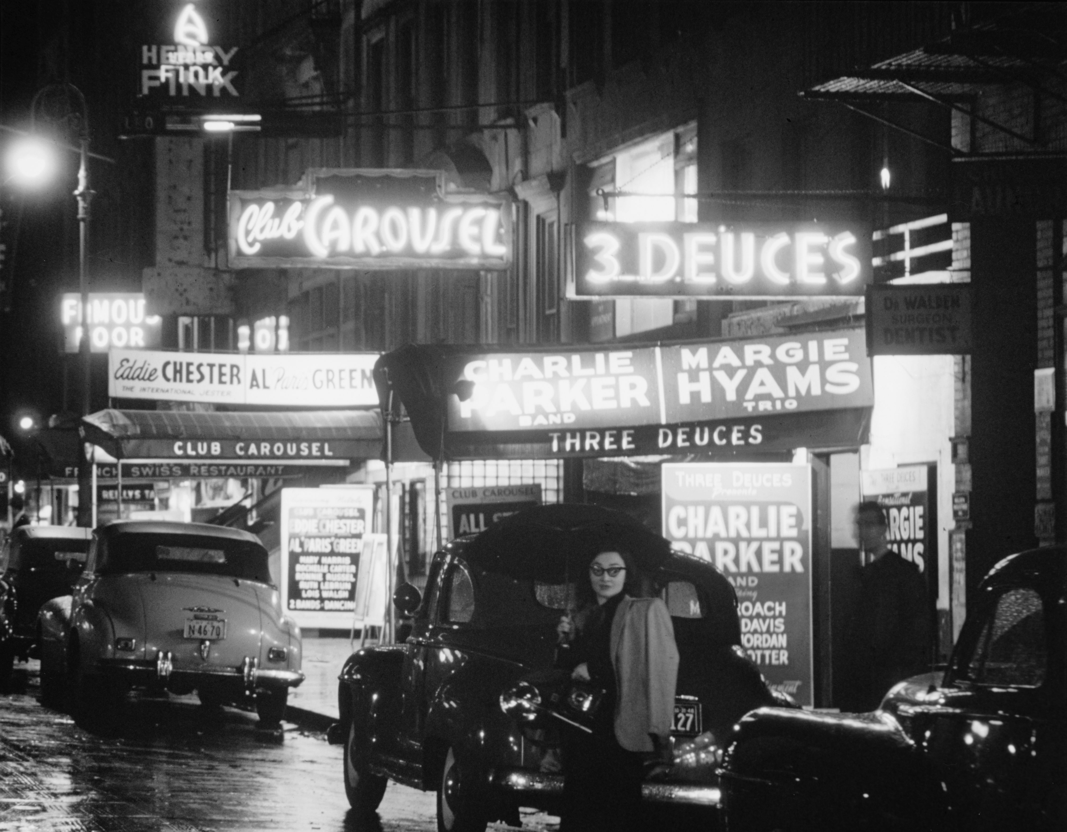 52nd Street, New York, N.Y. Black and white negative 5 x 4 inches.